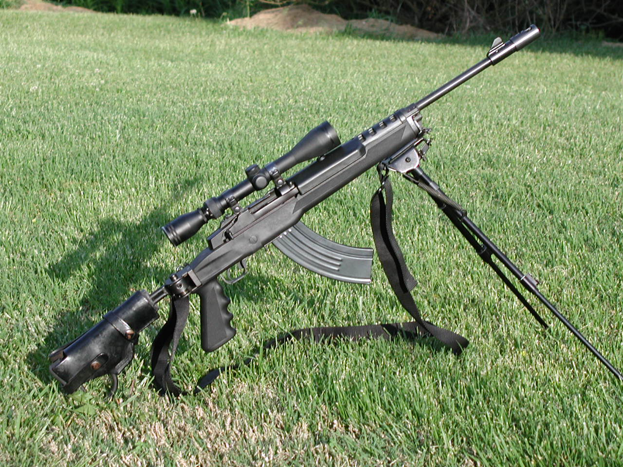 Ruger Mini Thirty (semi-automatic rifle) Synthetic Butler Creek pistol grip folding stock, Harris model 1A2-H (13-1/2" to 23") bipod, 30rd magazine, AK-74 style flash hider with added flash diverter, 3-9x40mm scope on Ruger high-post rings